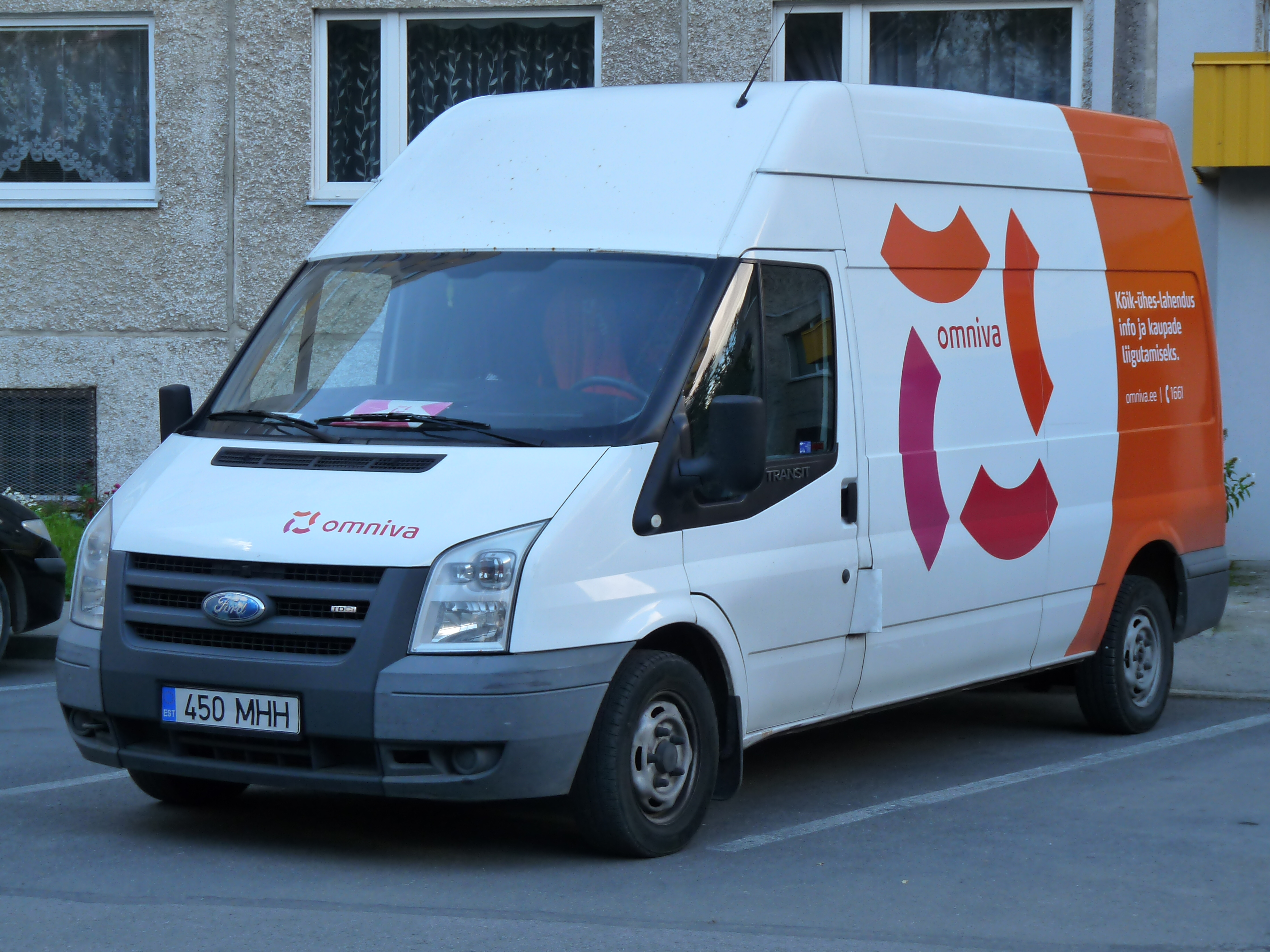 Ford vehicle in Tallinn, Estonia